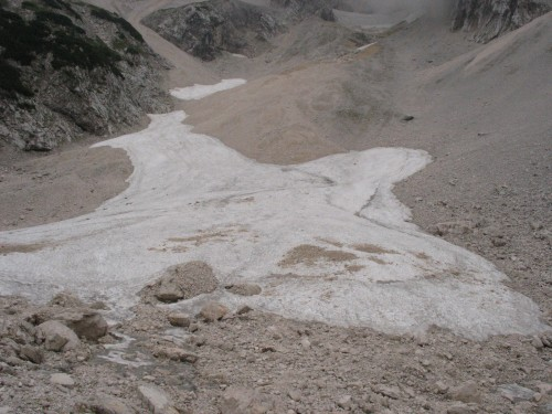 Photo made in July 2008 when visiting south-eastern most glacier in the Alps.